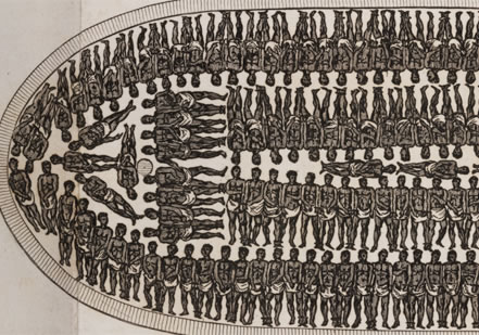 This is how Africans were shipped as cargo aboard ships.